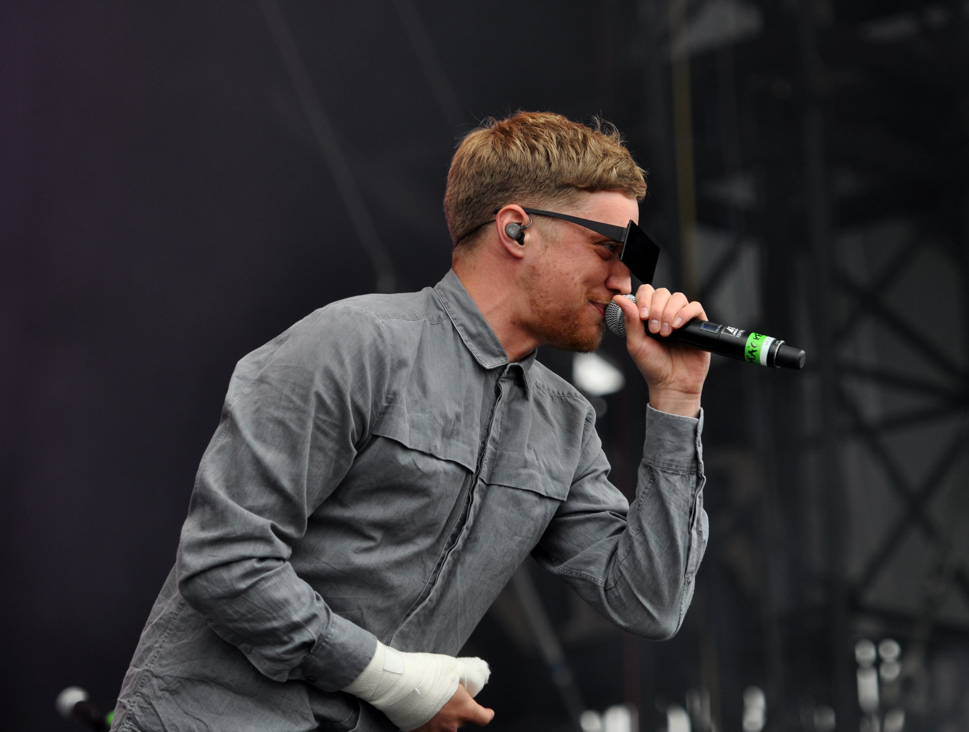 Rapper Maeckes from Die Orsons at Rock am Ring 2013